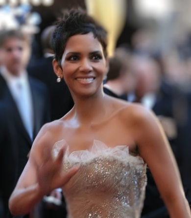 Actress Halle Berry at the 83rd Academy Awards.